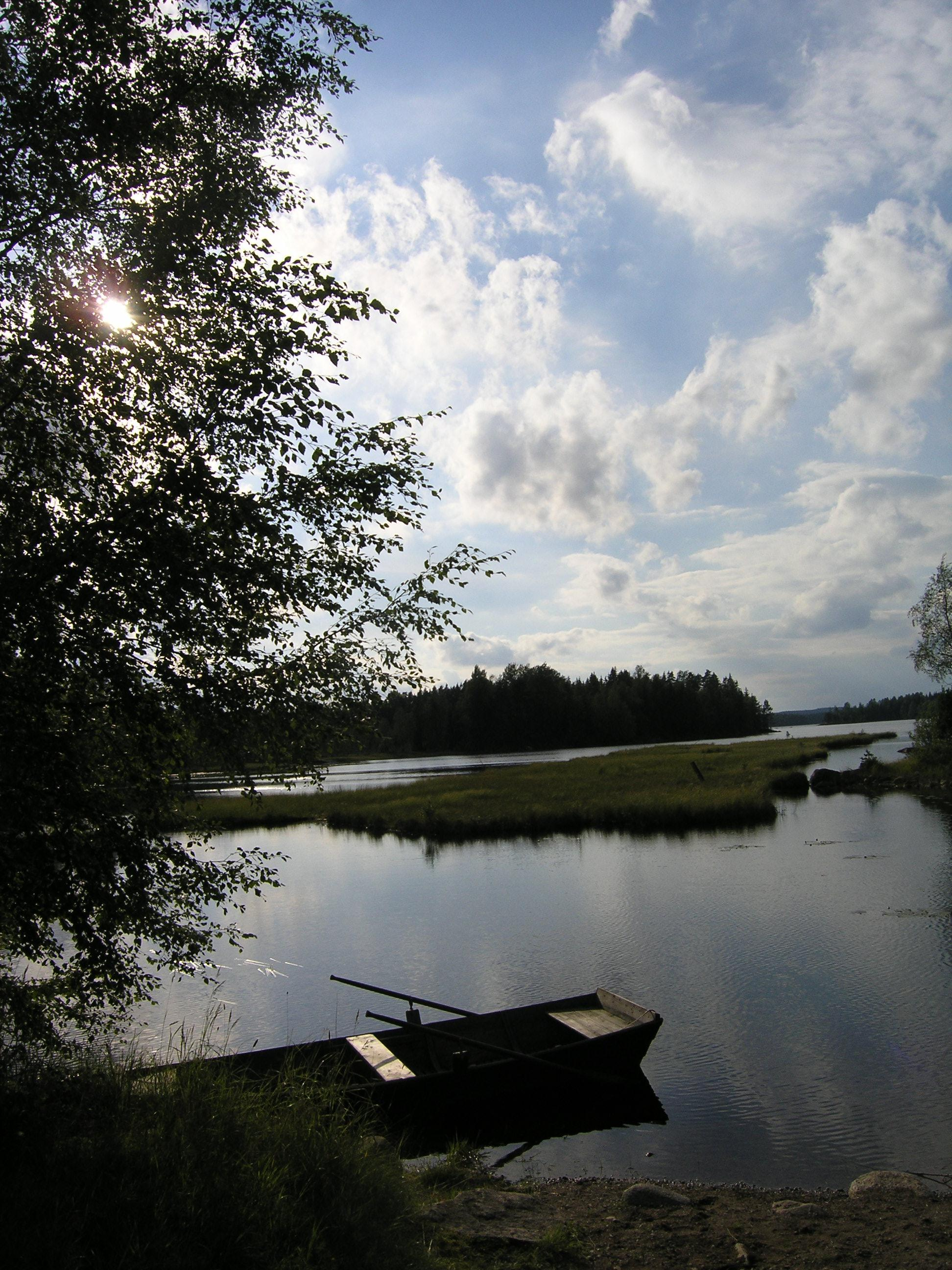 View of a lake in the surroundings of Fredriksberg, Sweden.